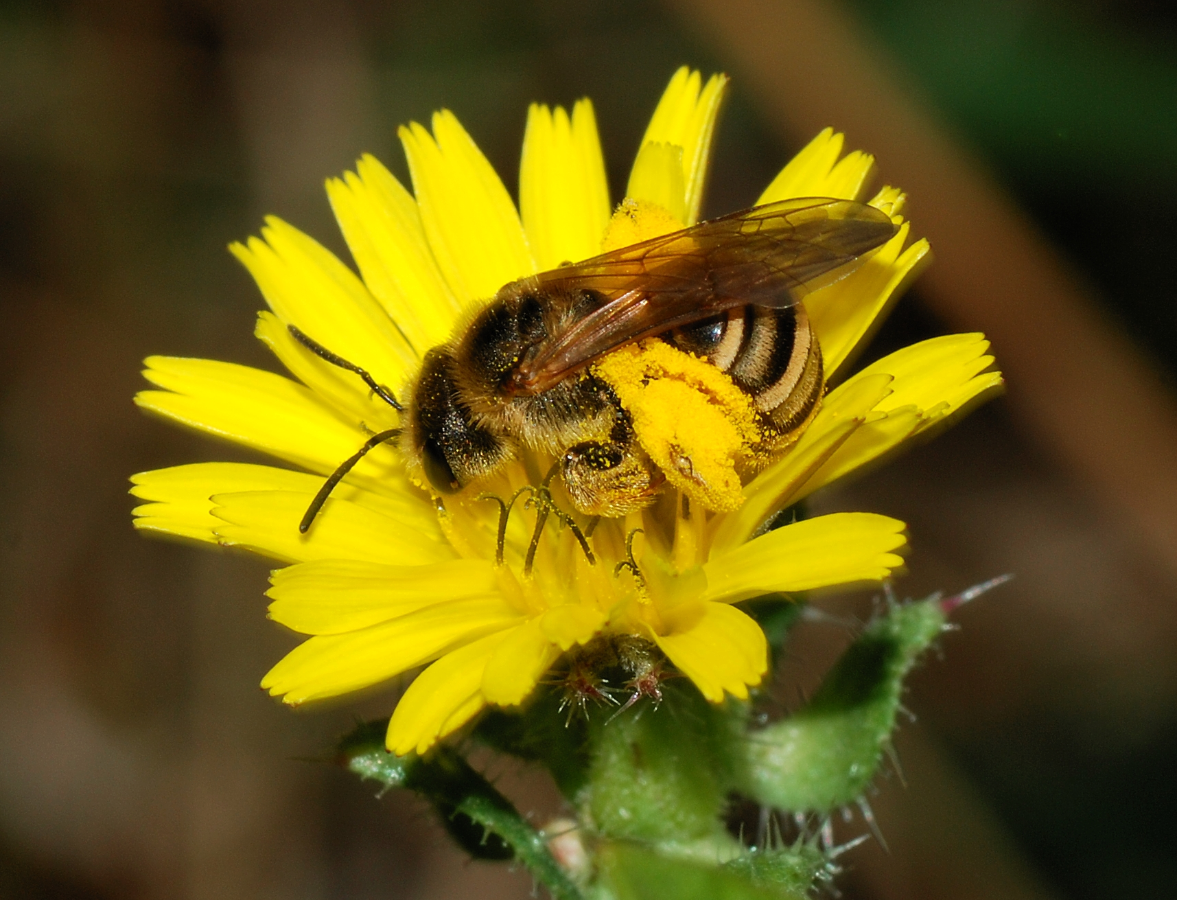 Bee of Halictus genus, possible Halictus scabiosae